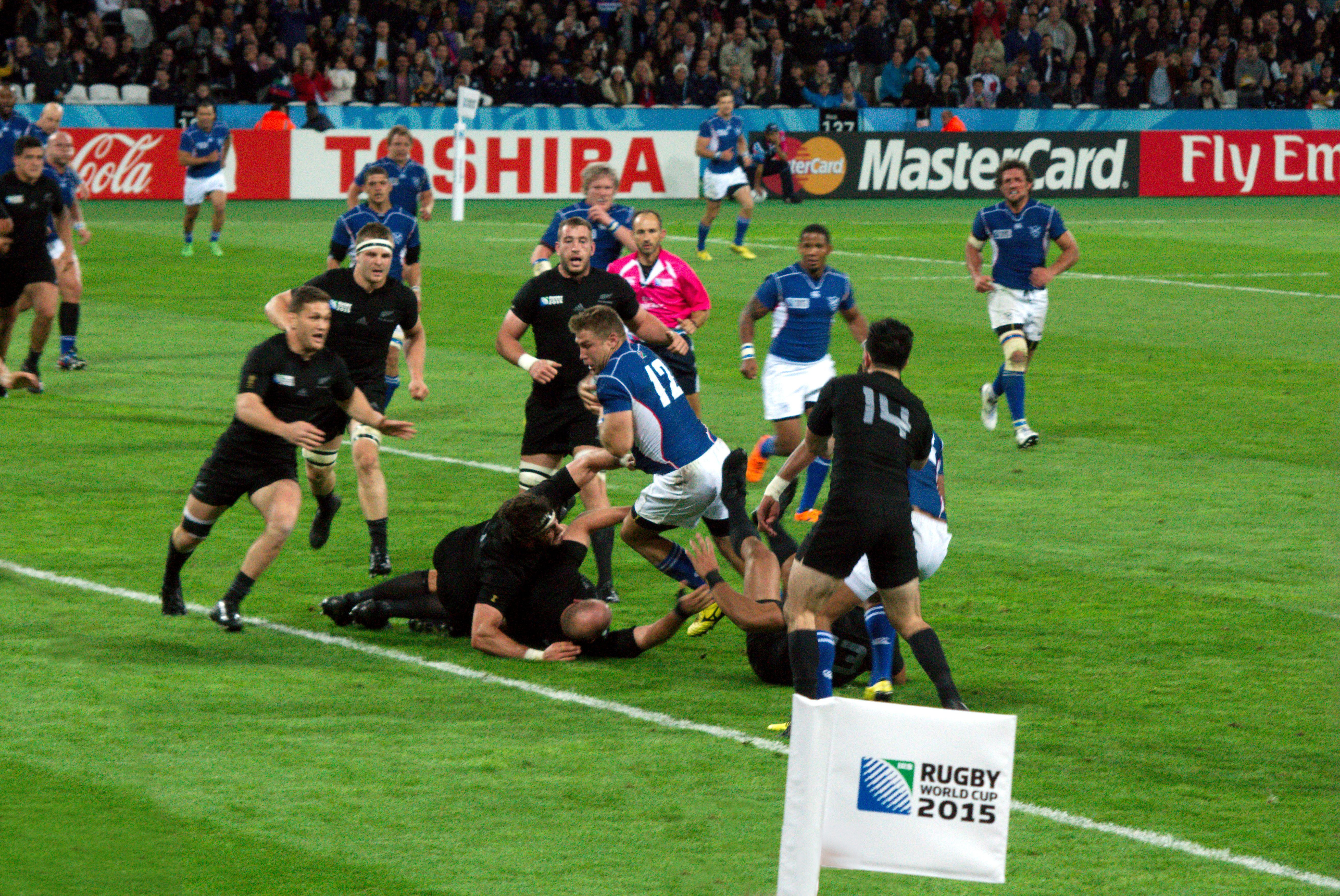 Namibia international rugby union player Johan Deysel scoring a try against New Zealand in the 2015 Rugby World Cup match at Olympic Stadium in London.